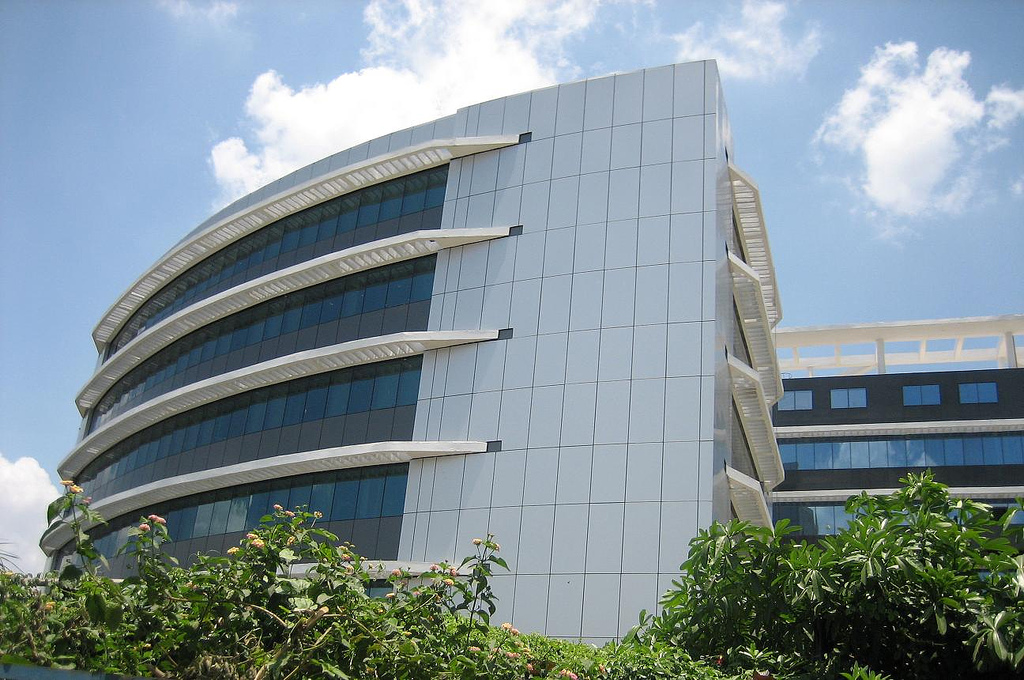 The Calcutta office of CTS is in Salt Lake sector V. Uploaded on June 6, 2006 by seaview99